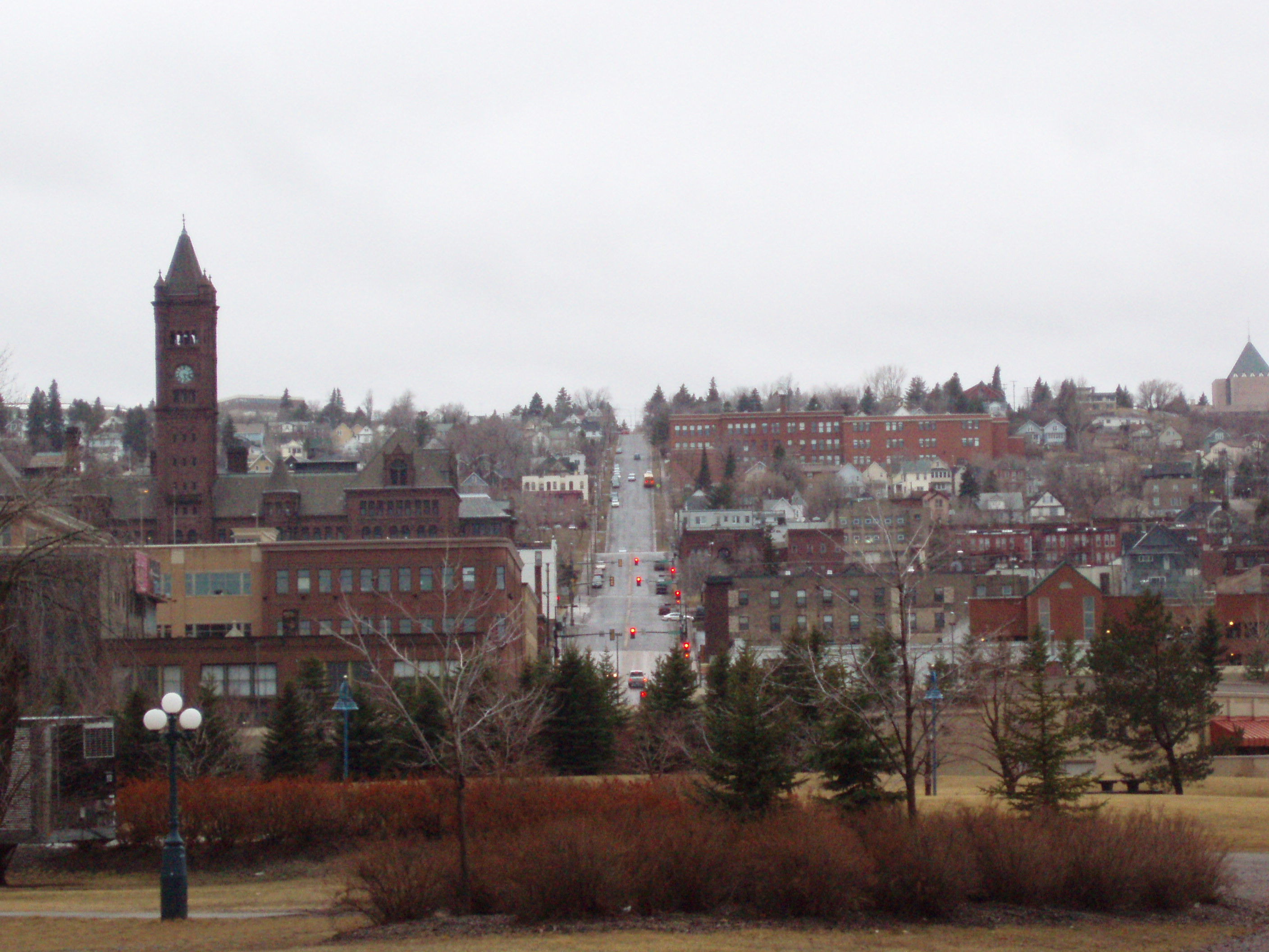 Duluth photo from Canal Park March 31, 2006 of 1st Avenue East (not street)